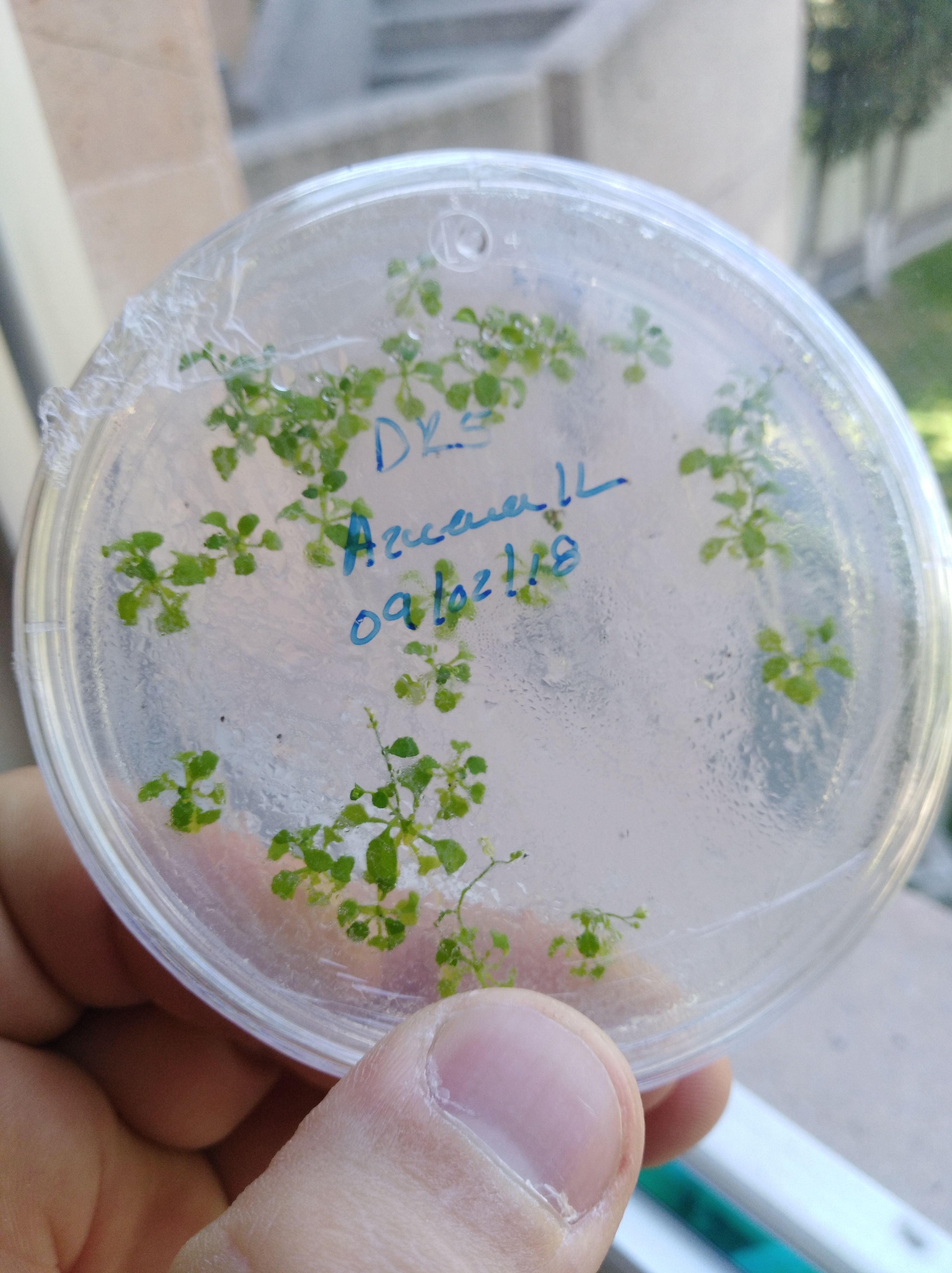 An Arabidopsis thaliana tissue culture Petri dish. Specimen kindly provided by Dr. Gerardo Argüello Astorga of Instituto Potosino de Investigación Científica y Tecnológica A.C. (IPICYT) San Luis Potosí state, Mexico.